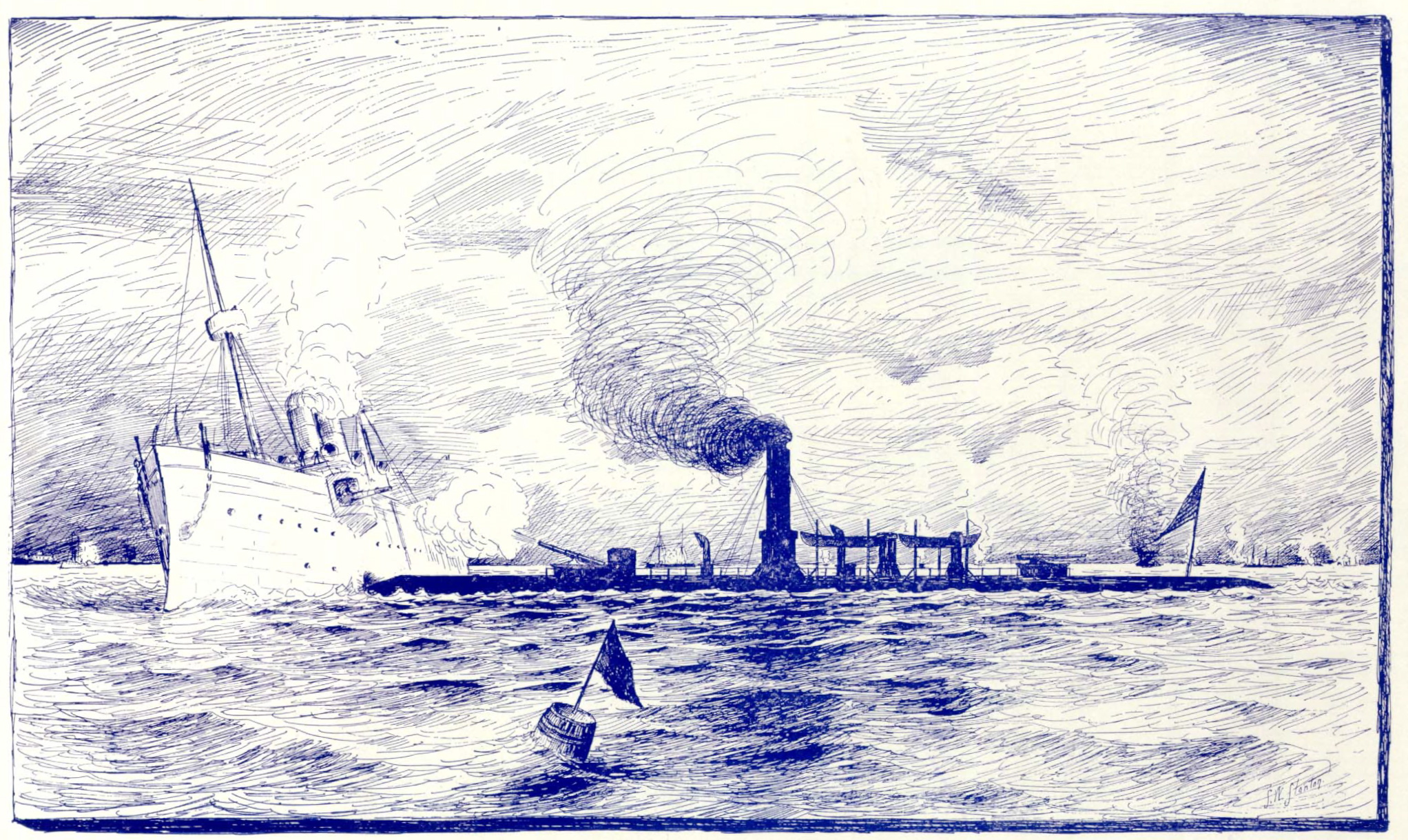 Katahdin, steam ram built 1893.